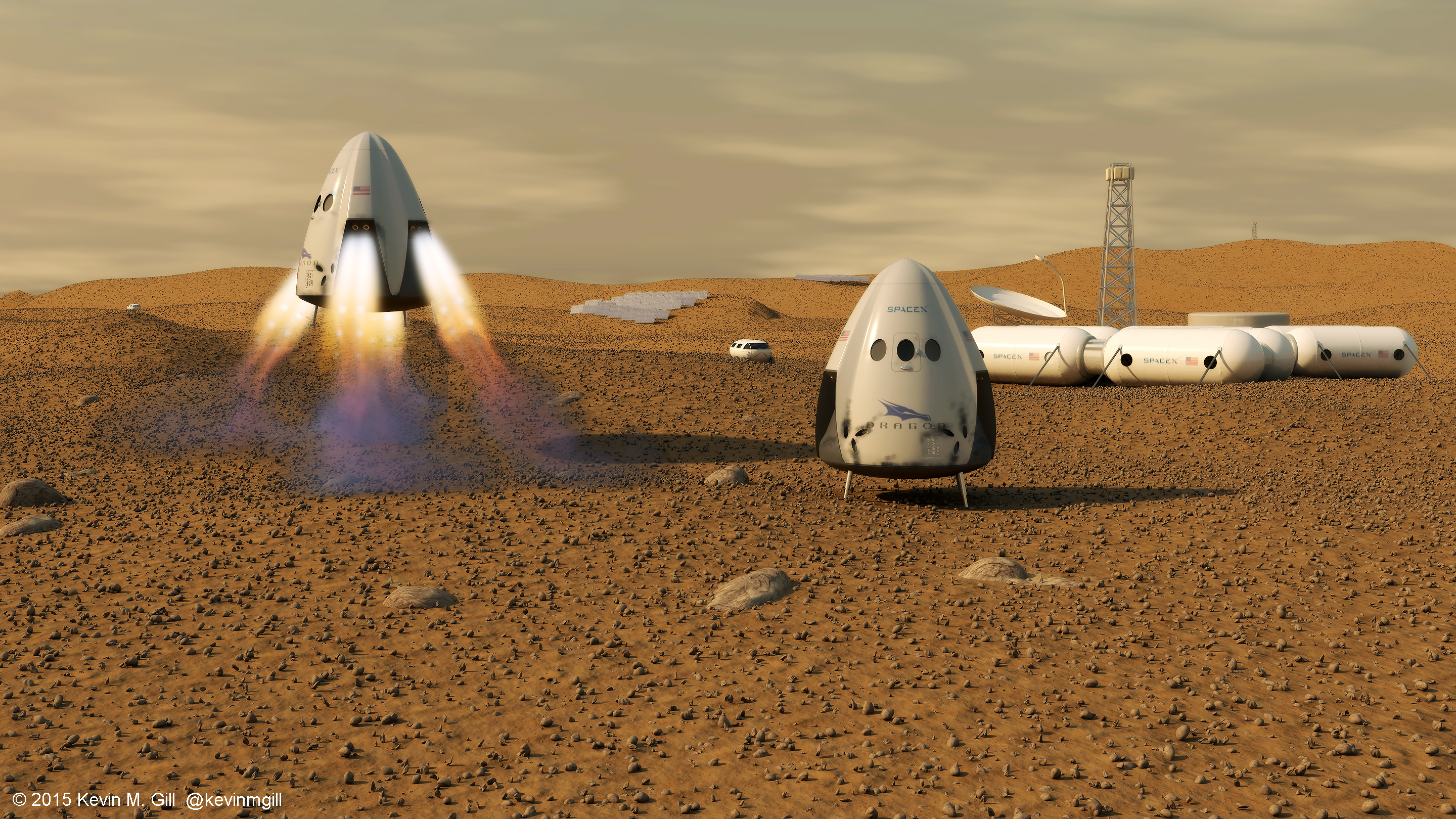 Modeled and rendered with Autodesk Maya and Adobe Photoshop. The capsule is based on the current Dragon V2 design. Other structures and vehicles have no basis on design.